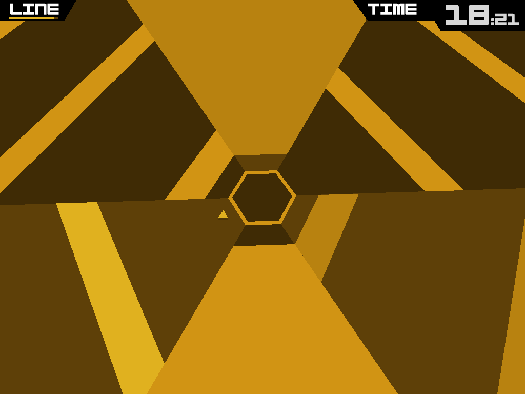 Super Hexagon iPad version screenshot, depicting the Hexagon difficulty level. Released in 2012, the game was developed by Terry Cavanagh.